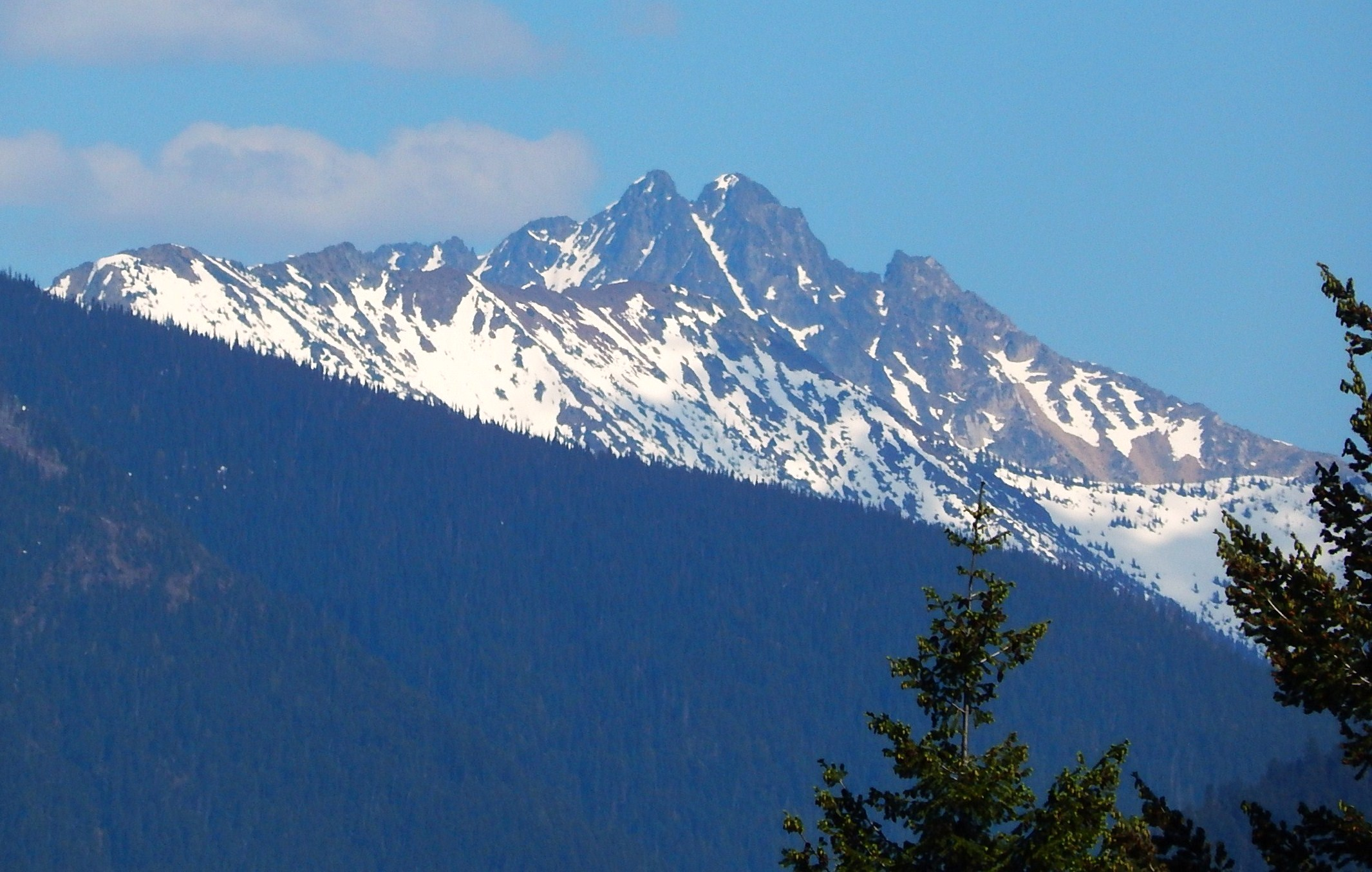 Azurite Peak in the North Cascades mountain range seen from Highway 20 with long lens